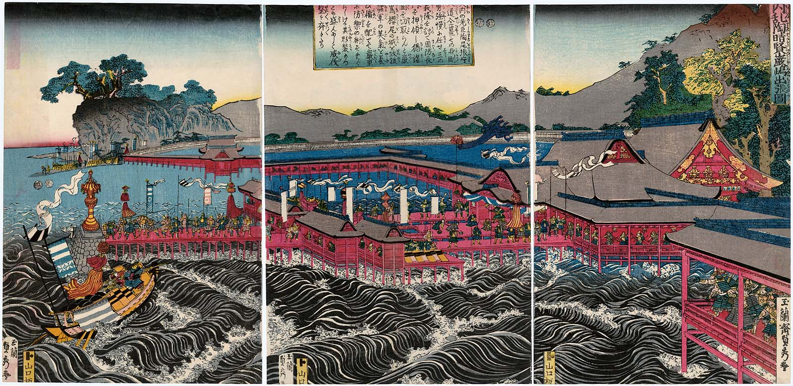 Battle of Itsukushima